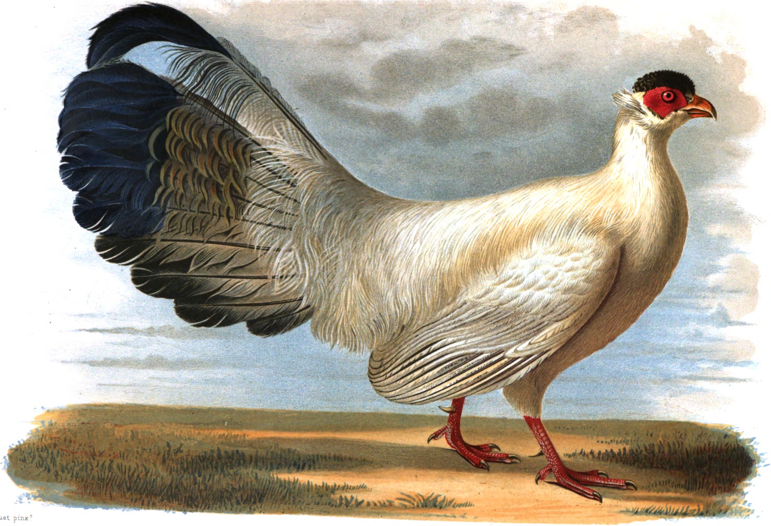 White Eared Pheasant - subspecies Crossoptilon crossoptilon drouynii